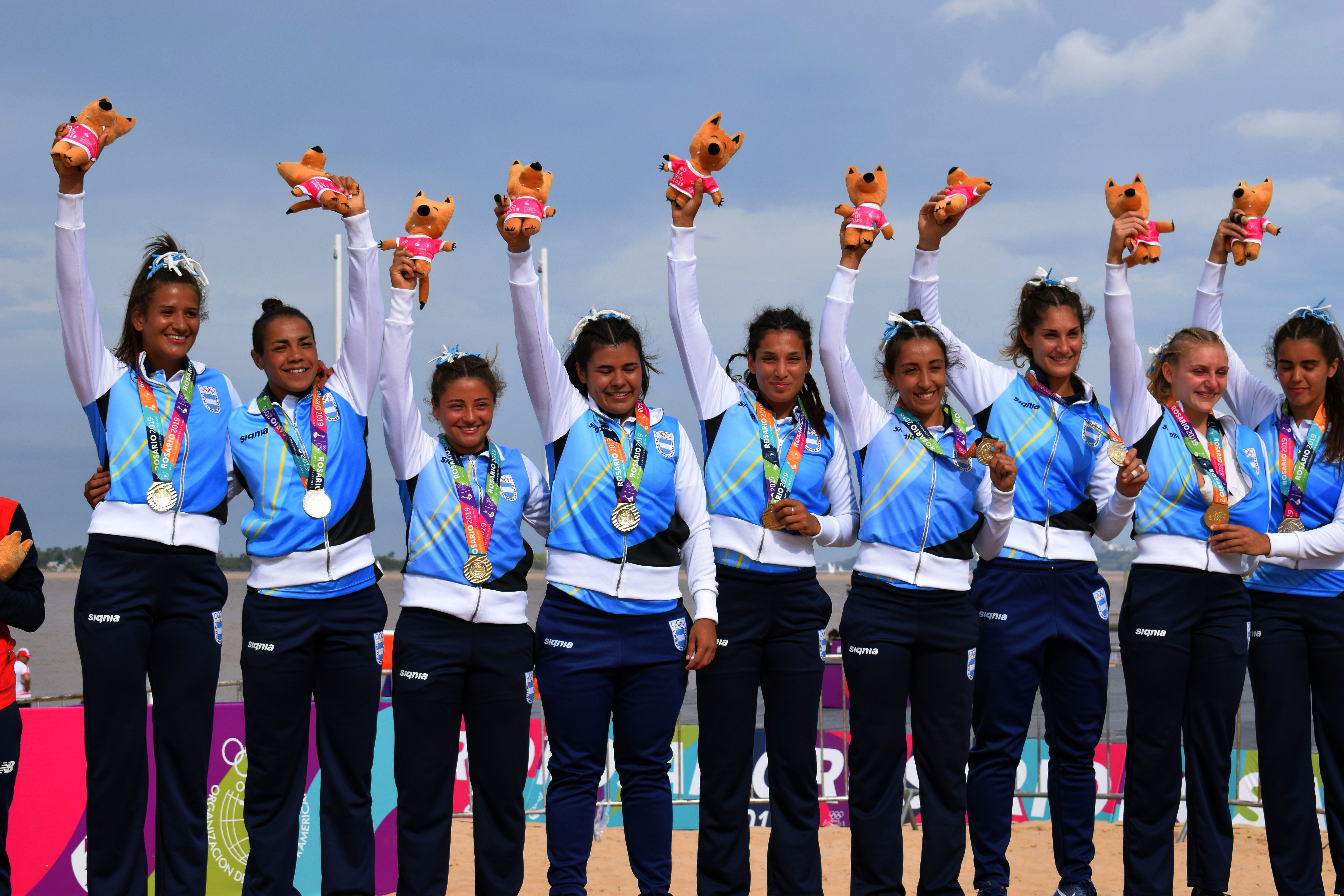 Victory ceremony of the girls beach rugby tournament of the 2019 South American Beach Games.